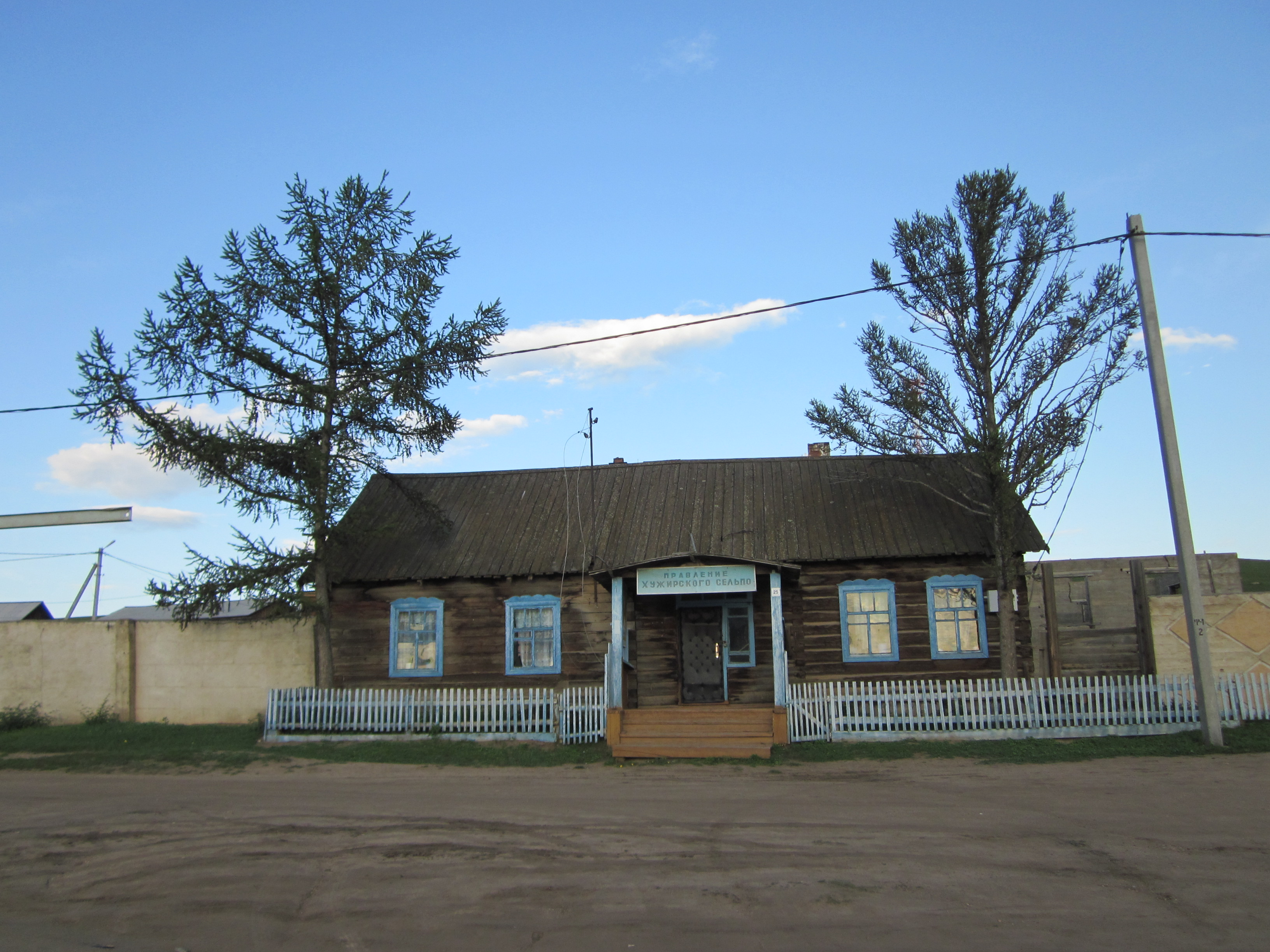 Consumer cooperative in Khuzhir on Olkhon Island in Lake Baikal, Russia